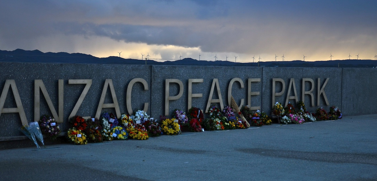 Soon after Anzac Day,Albany Peace Park with wreaths